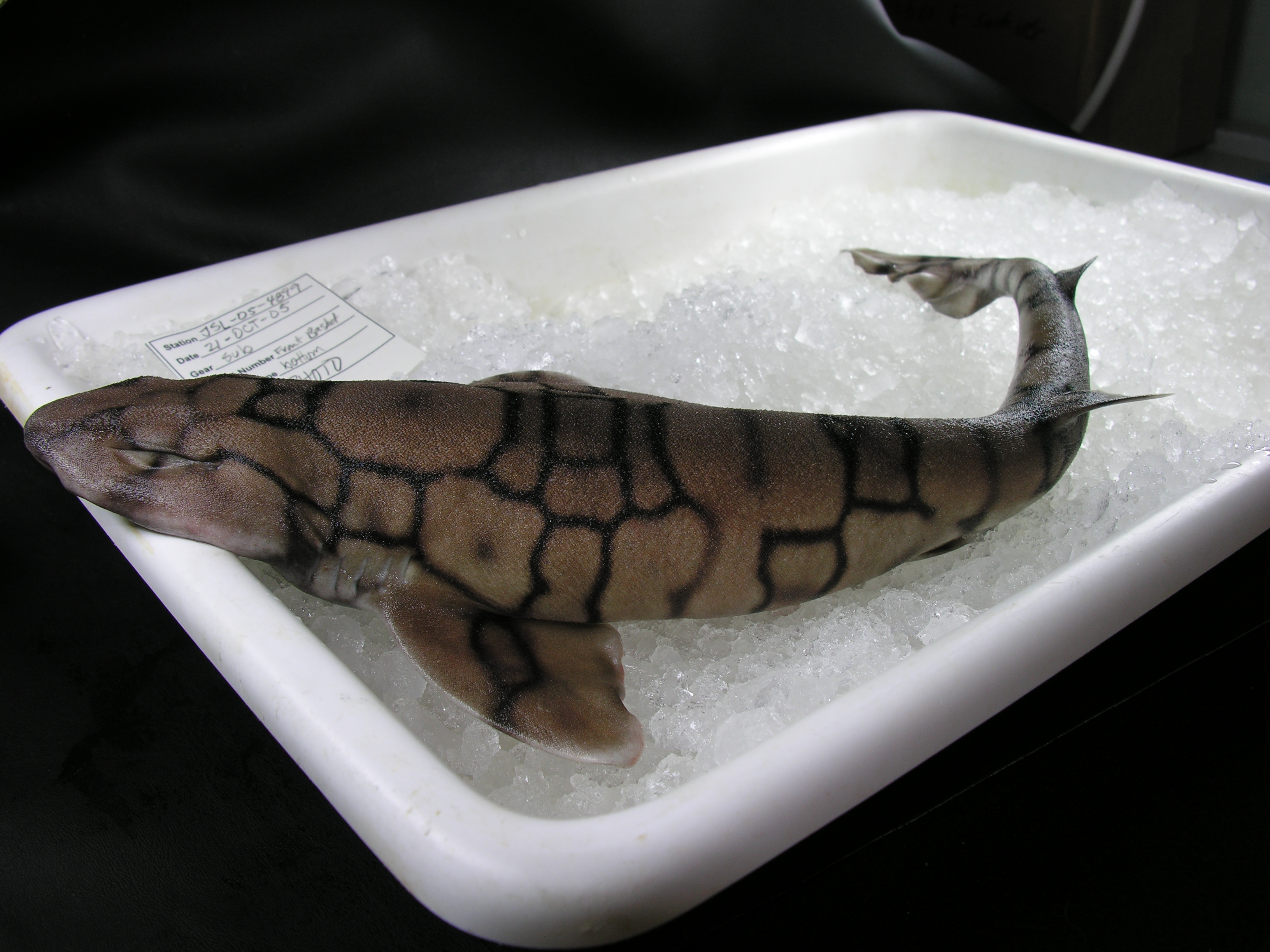 Scyliorhinus retifer taken offshore of North Carolina.